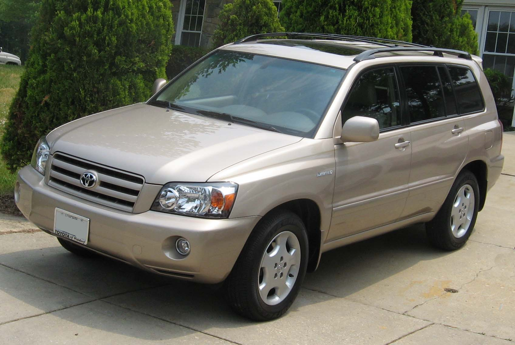 2004-2007 Toyota Highlander photographed in USA.